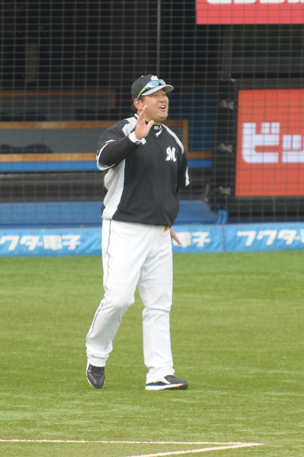 Tsutomu Ito, manager of the Chiba Lotte Marines, at Chiba Marine Stadium.